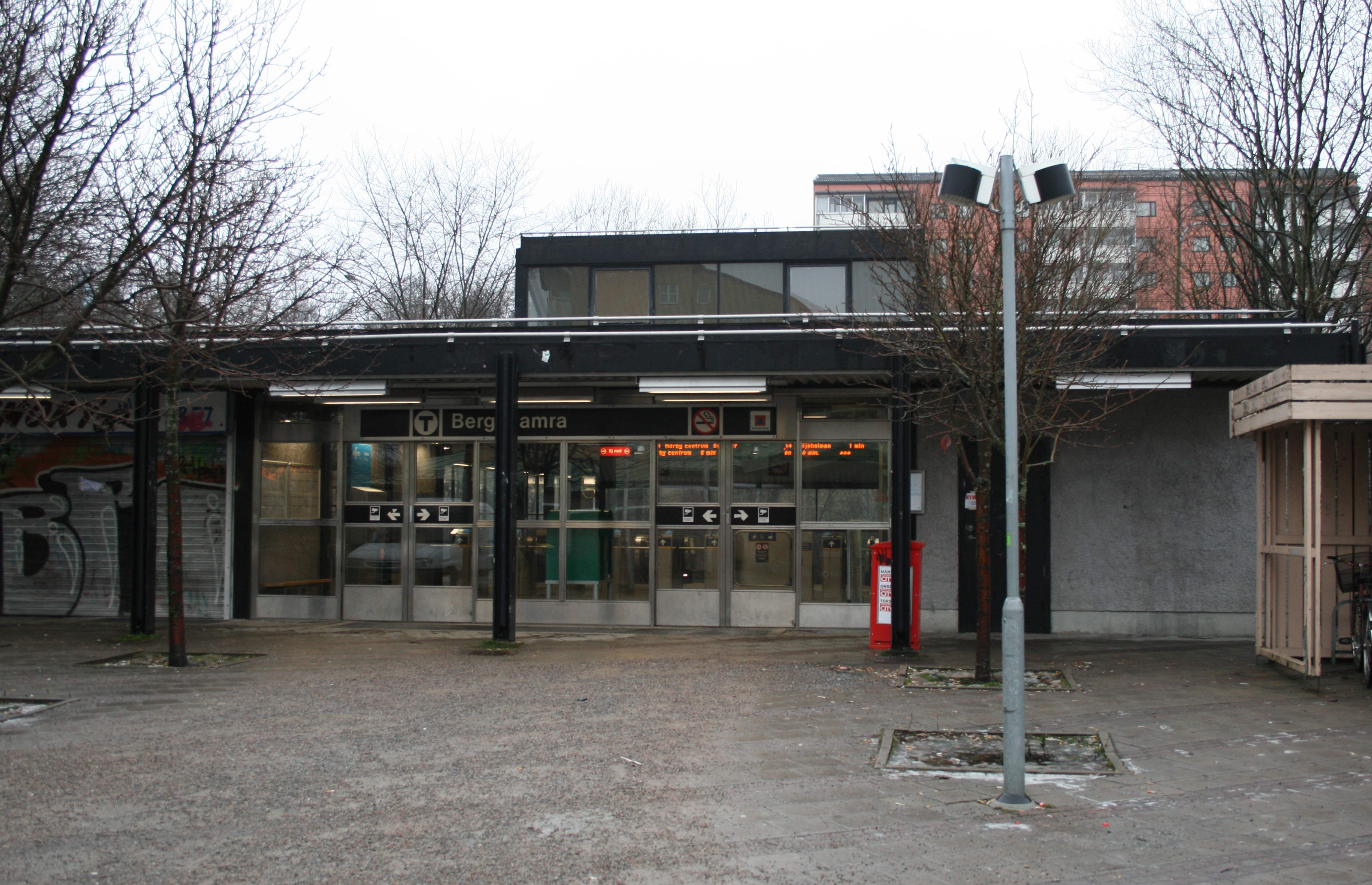 Stockholm metro station Bergshamra